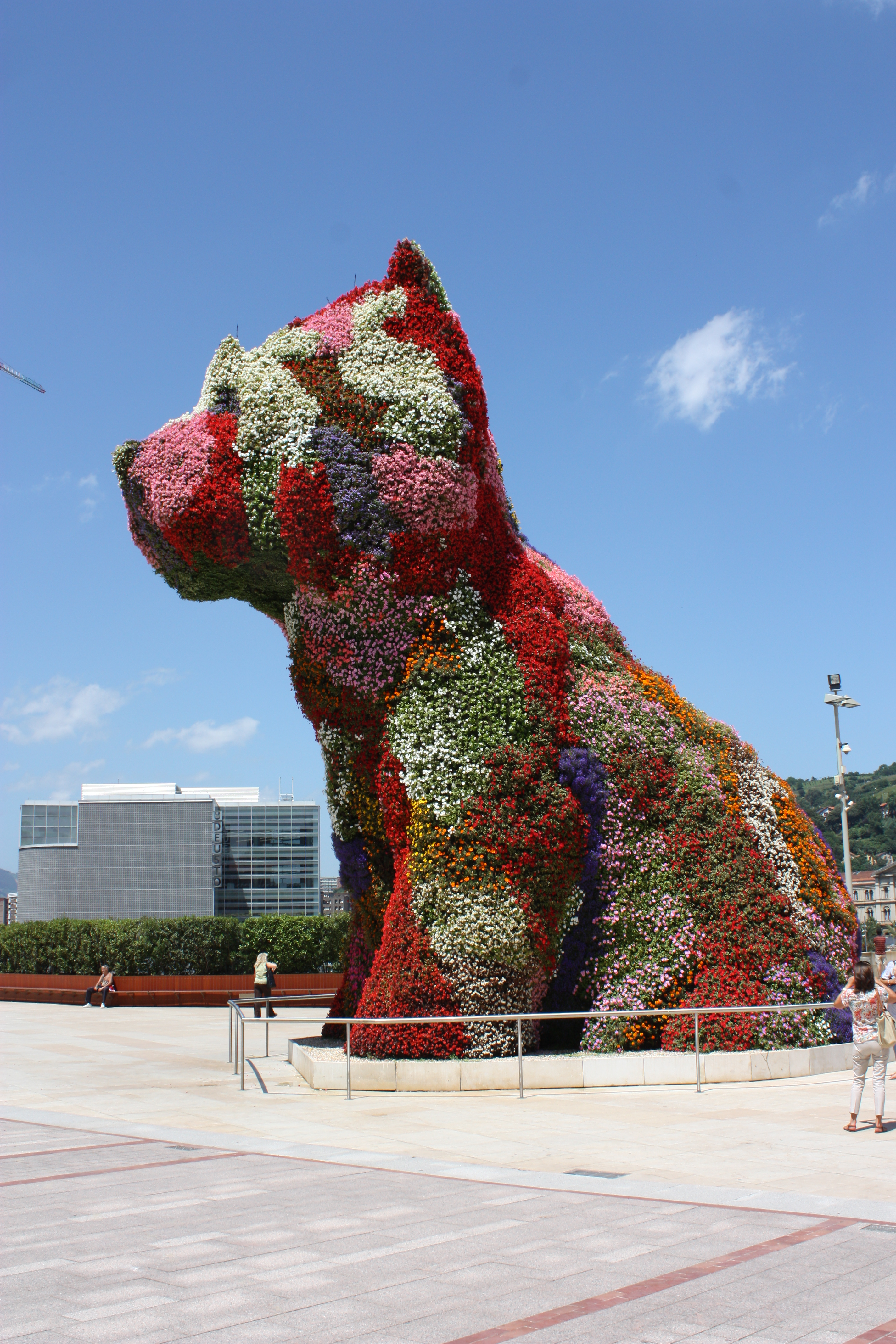 "Puppy" by Jeff Koons, Guggenheim Museum, Bilbao, Biscay, Spain, July 2010